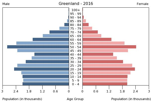 The population pyramid of Greenland illustrates the age and sex structure of population and may provide insights about political and social stability, as well as economic development. The population is distributed along the horizontal axis, with males shown on the left and females on the right. The male and female populations are broken down into 5-year age groups represented as horizontal bars along the vertical axis, with the youngest age groups at the bottom and the oldest at the top. The shape of the population pyramid gradually evolves over time based on fertility, mortality, and international migration trends.